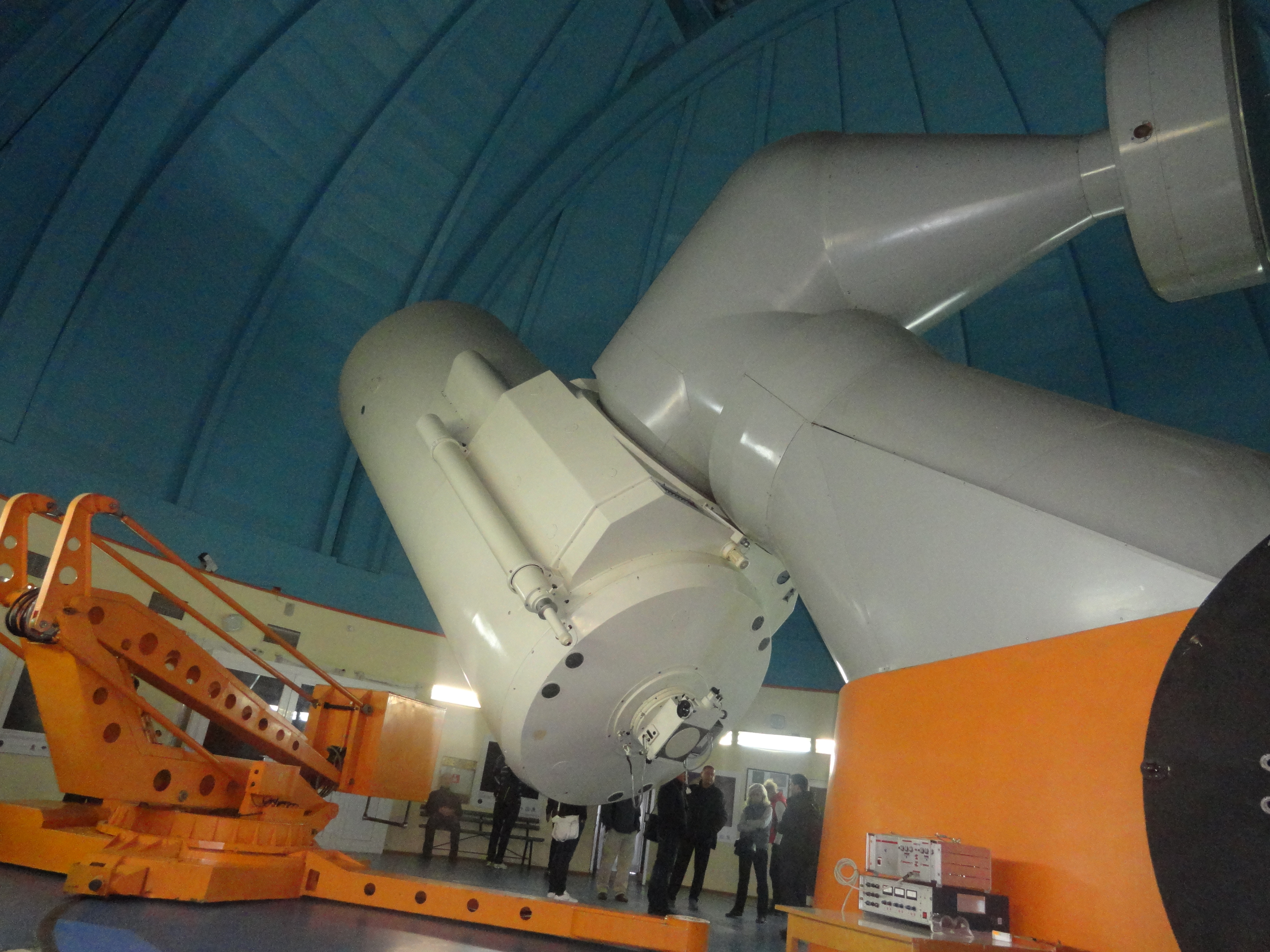 Visit my blog at DZHINGAROV BLOG. You can find awesome posts and photos at my blog. This is The Observatory in Rozhen, Bulgaria. It is situated in Rhodopa Mountain.